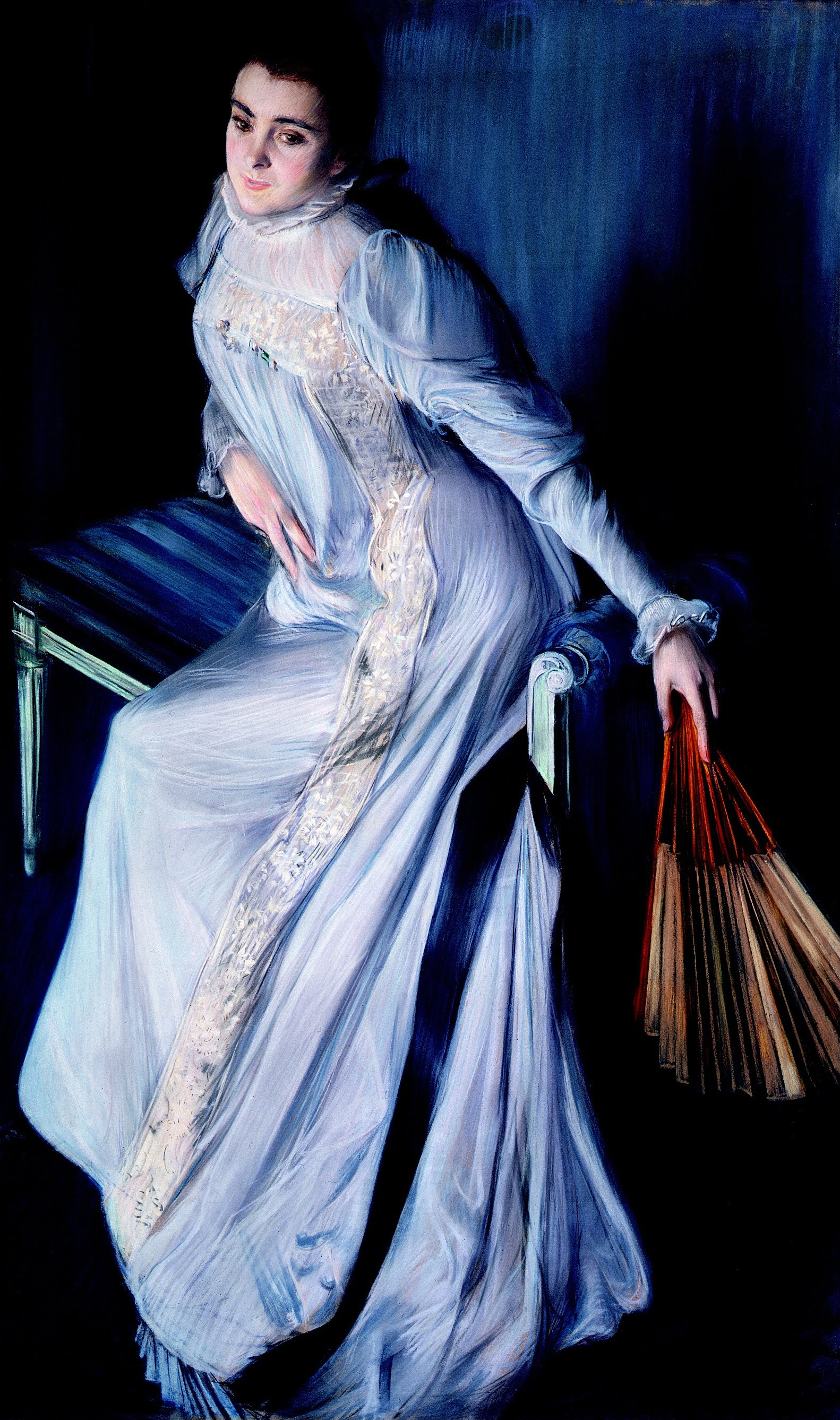 Portrait of Eugenia Huici Arguedas de Errazuriz. Jacques-Emile Blanche. Dixon Gallery and Gardens. 64 x 34 1/4 inches.